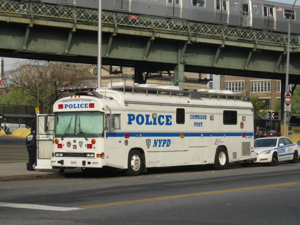 New York City Police Department Command Post #4077 has been deployed in Williamsburg, Brooklyn, and sits at the Williamsburg Bridge Plaza bus terminal.